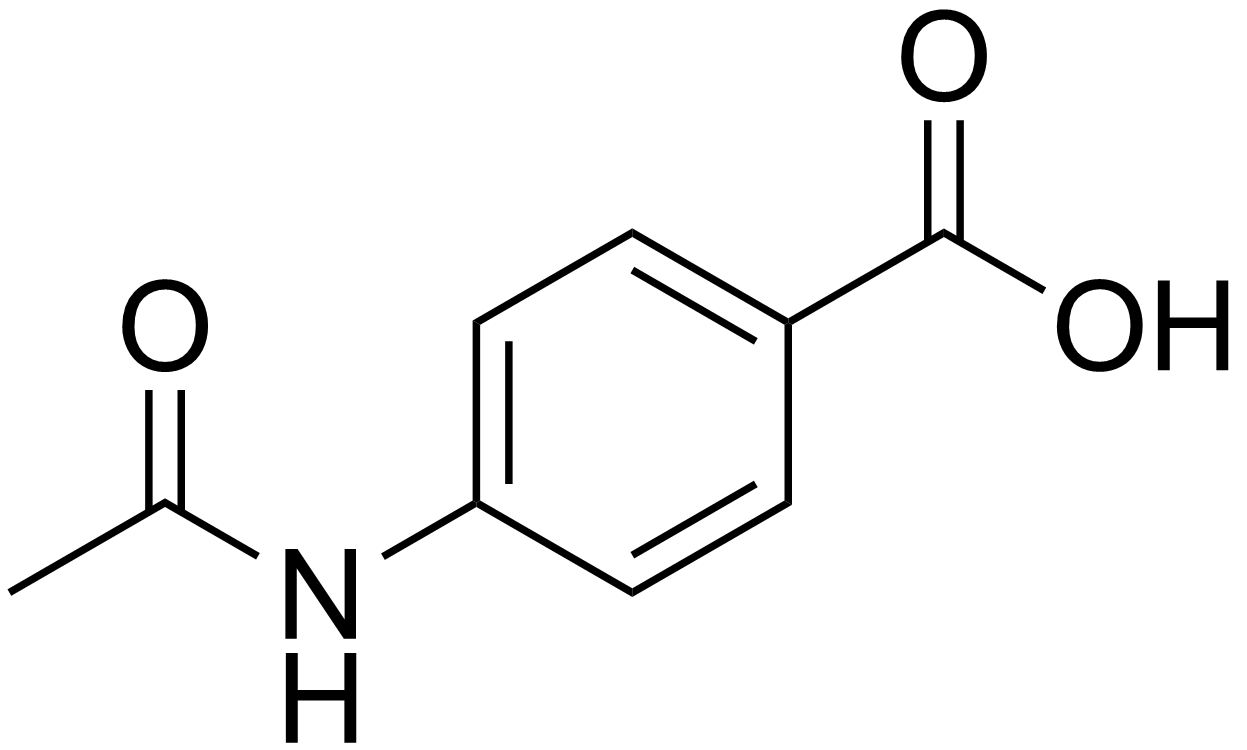 Chemical structure of acedoben (acetamidobenzoic_acid, N-Acetyl-PABA; 4-Carboxyacetanilide; p-Acetamidobenzoic acid p-Acetaminobenzoic acid; PAAB; p-Acetoaminobenzoic acid)